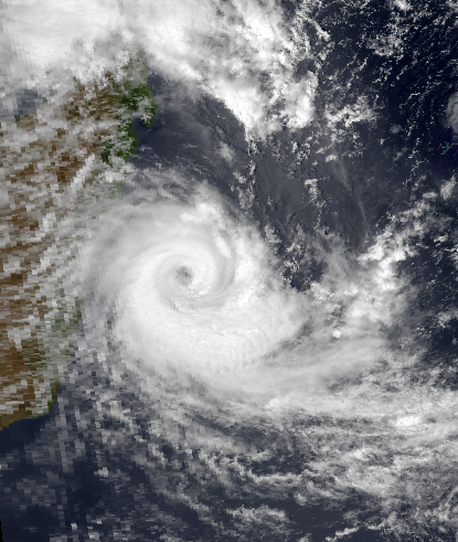 Cyclone Gretelle nearing landfall on Madagascar.